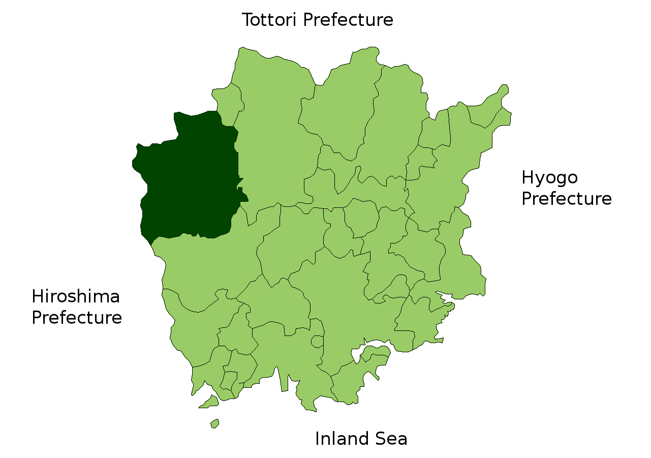 Map of Okayama Prefecture highlighting Niimi city. Borders of map as of July, 2006. (blank map used from [1]) See also Image:OkayamaMapCurrent.png.